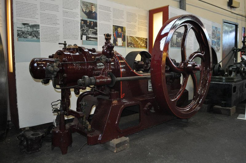 Oil Engine, near to Lincoln, Lincolnshire, Great Britain. Akroyd of Grantham oil engine, built in 1893. Originally used as a barn engine before being used for teaching students at a technical college.